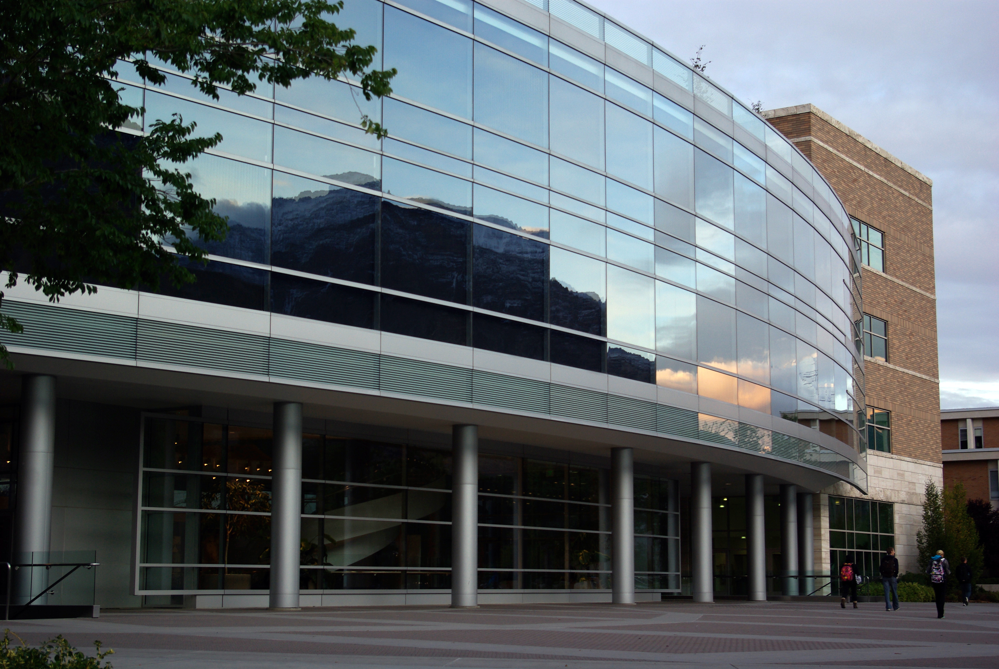 The East face of the Education in Zion Gallery on BYU Campus.